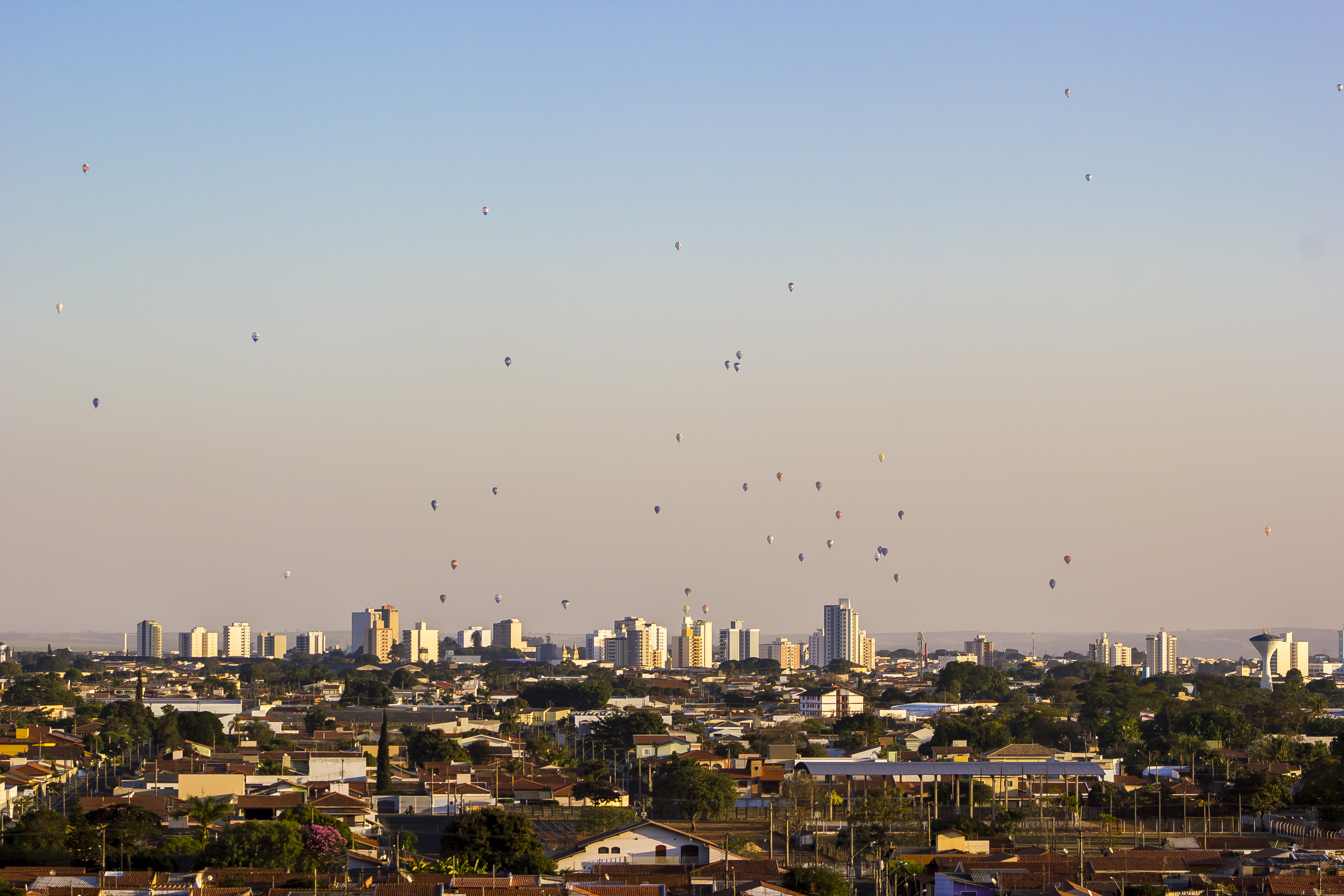 Skyline of Rio Claro during the 21st world hot air balloon championship